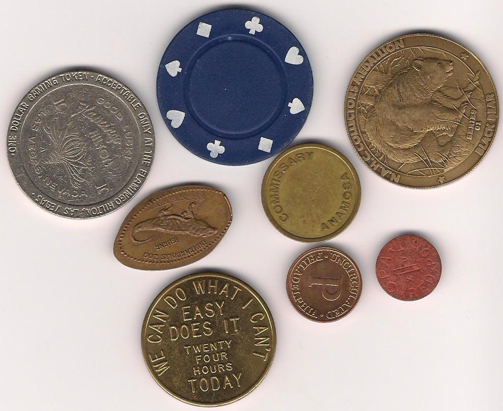 Eight coin-like objects (exonumia).